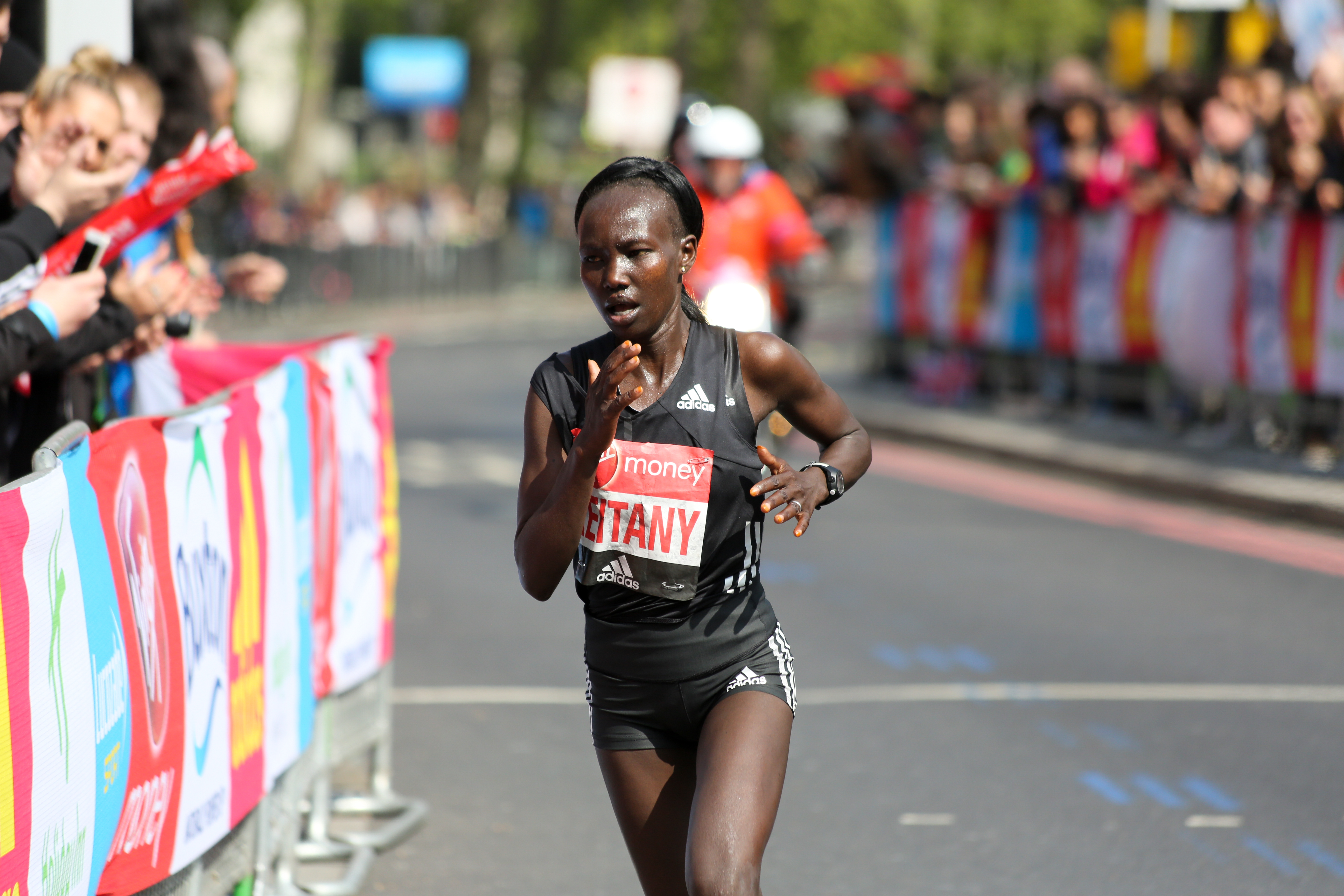 2017 London Marathon – Elite Women winner - Mary Keitany